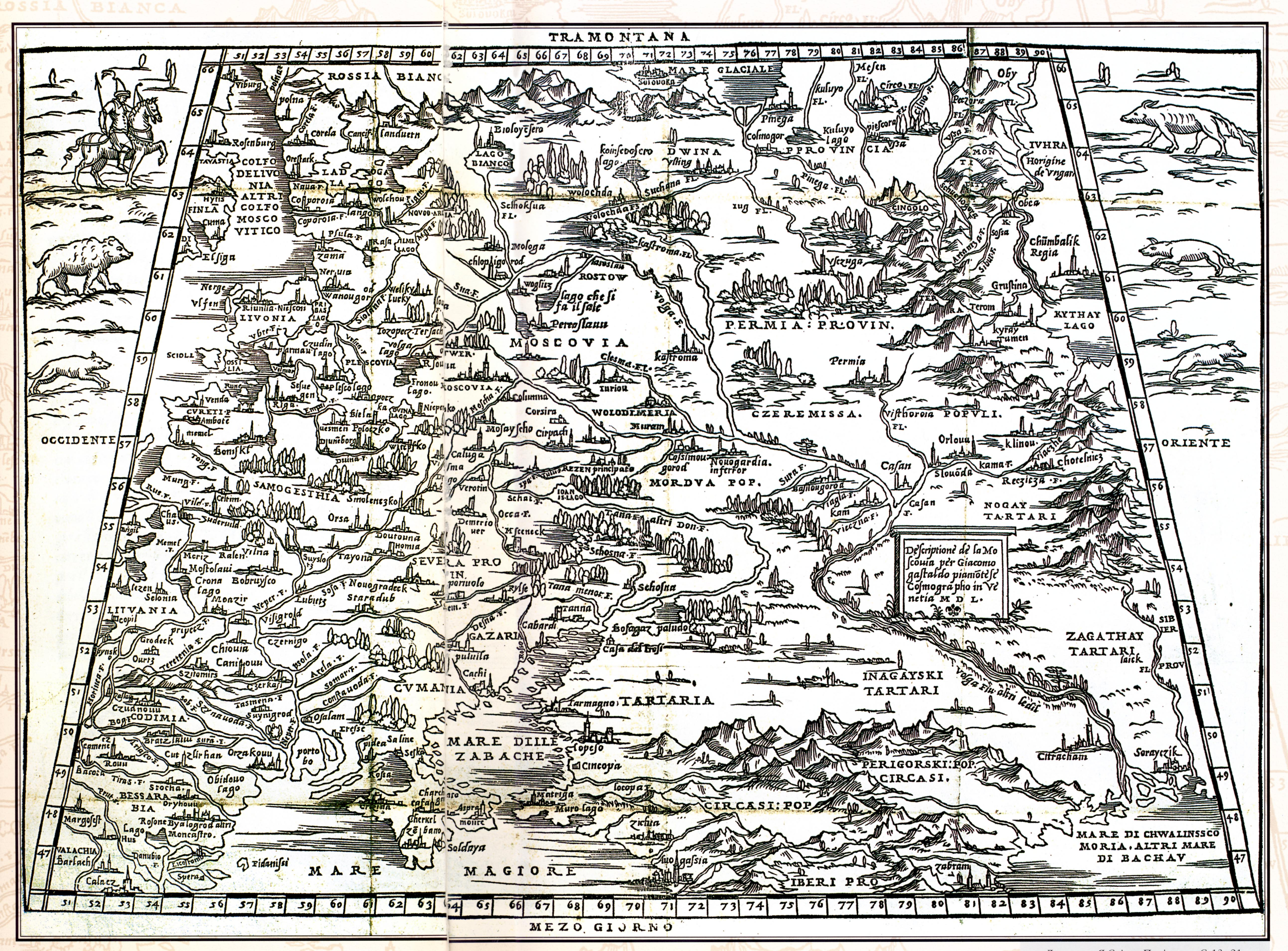 Description of Muscovy by Giacomo Gastaldo, a Piedmontese cosmographer in Venice.